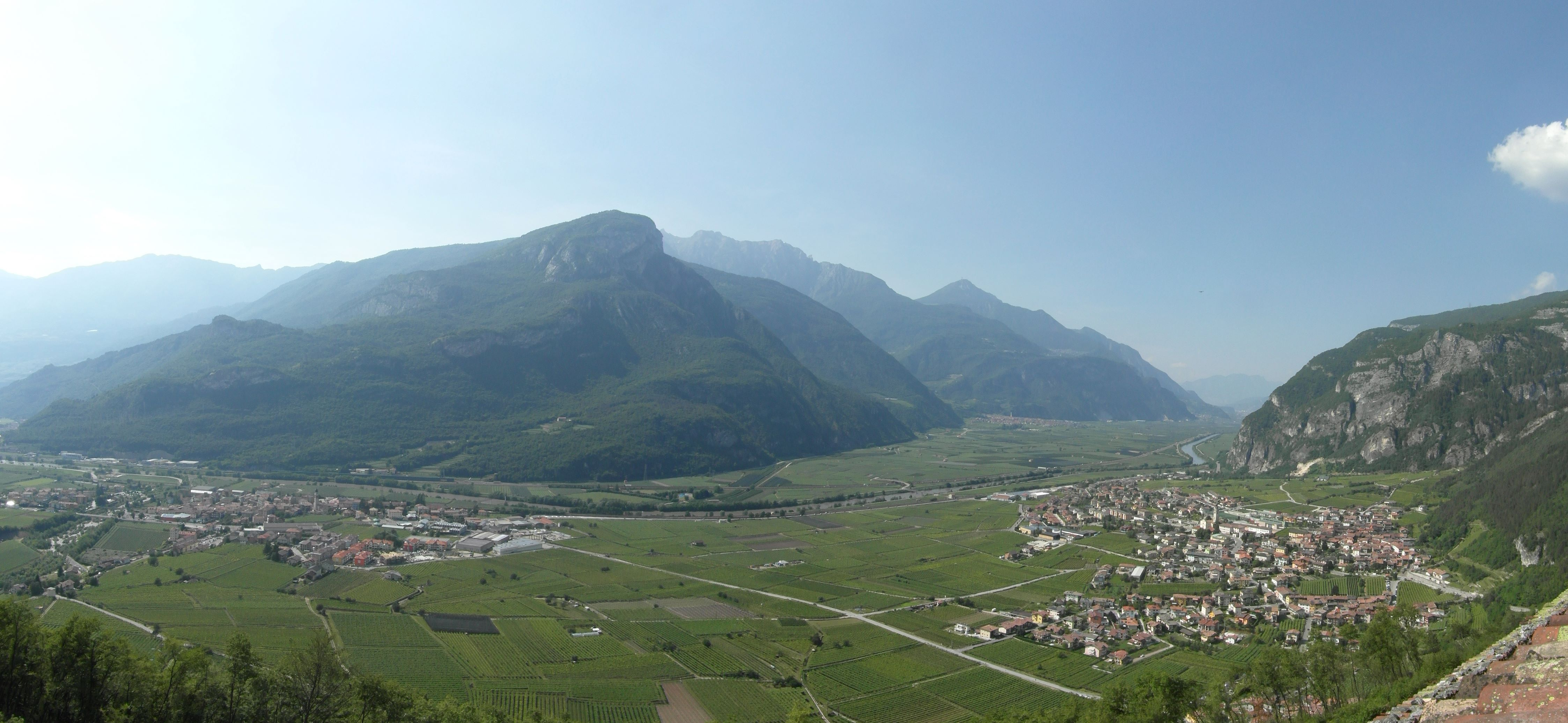 Adige valley from Beseno Castle, Trentino, Italy